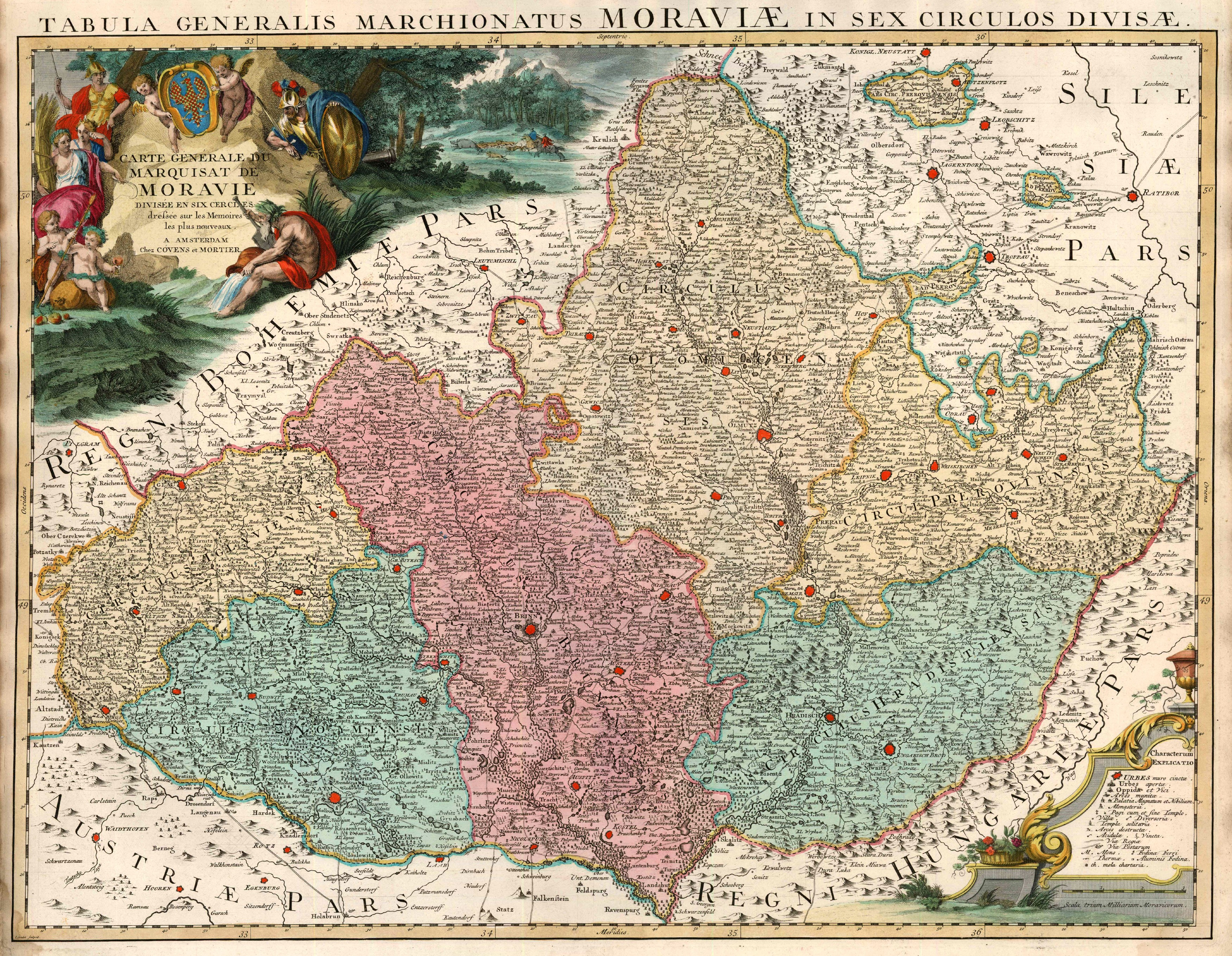 Map of Moravia 1742